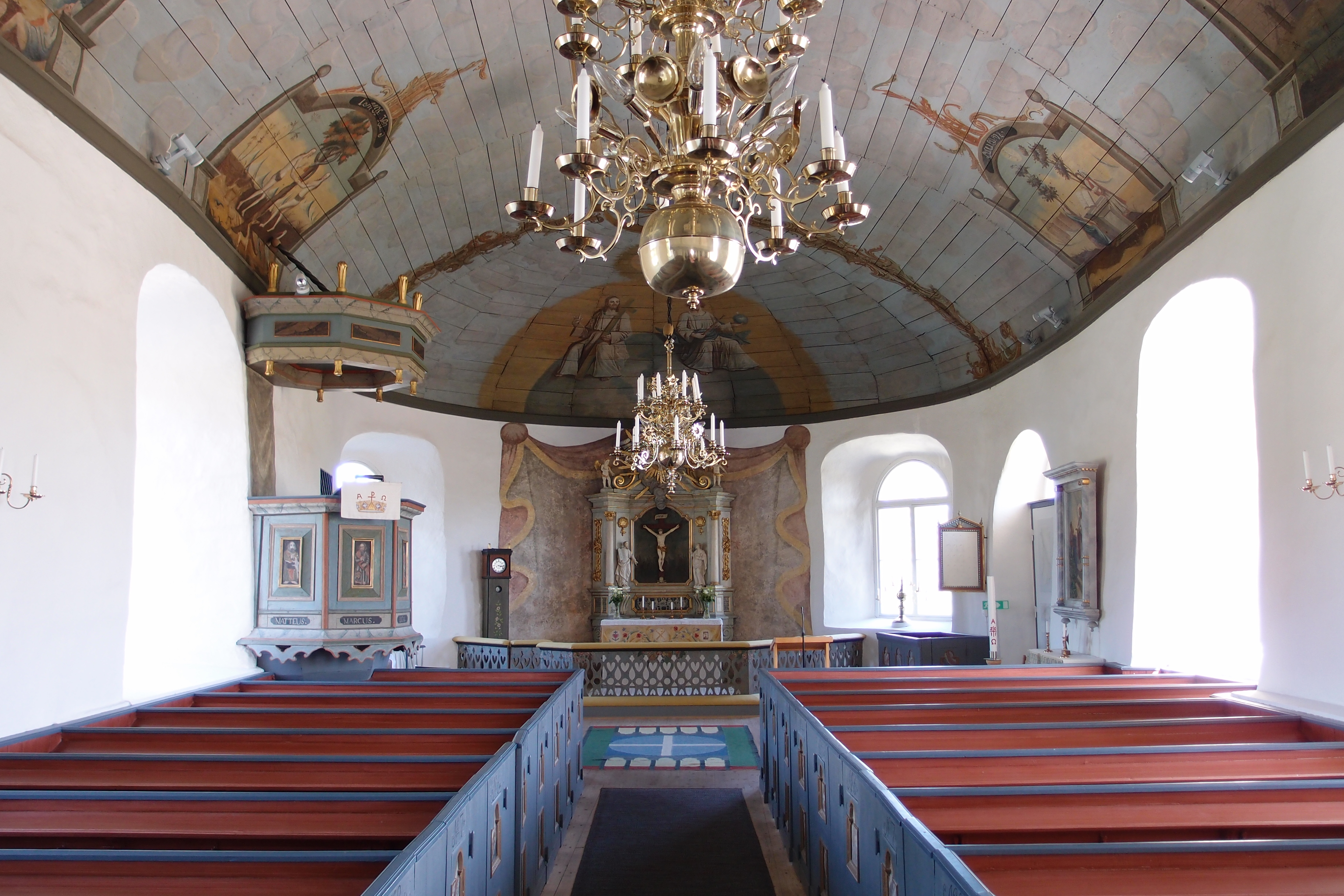 Gällinge Church, interior